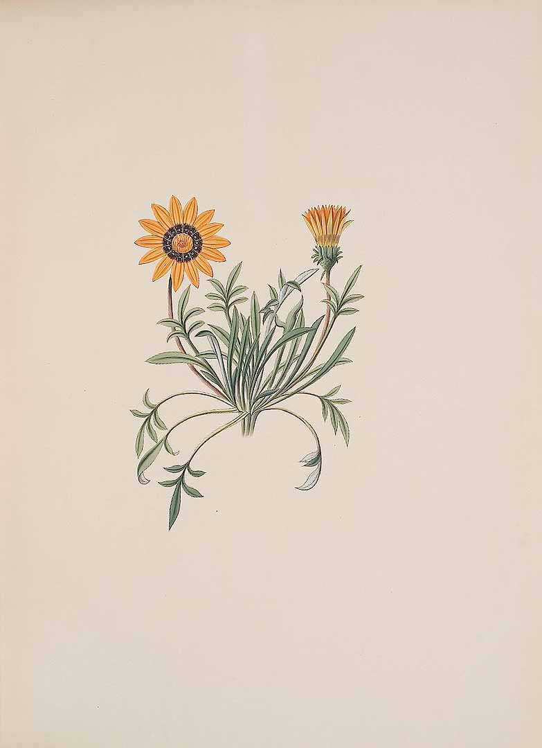 Gorteria heterophylla Willd. is a synonym of Gazania rigens (L.) Gaertn. from Hortus sempervirens, vol. 38: t. 450 (1816)